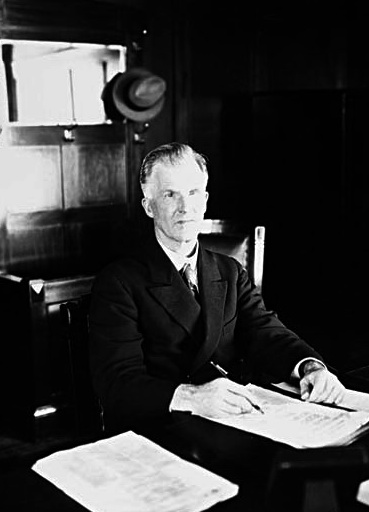 Portrait of Prime Minister James Henry Scullin PC in his office